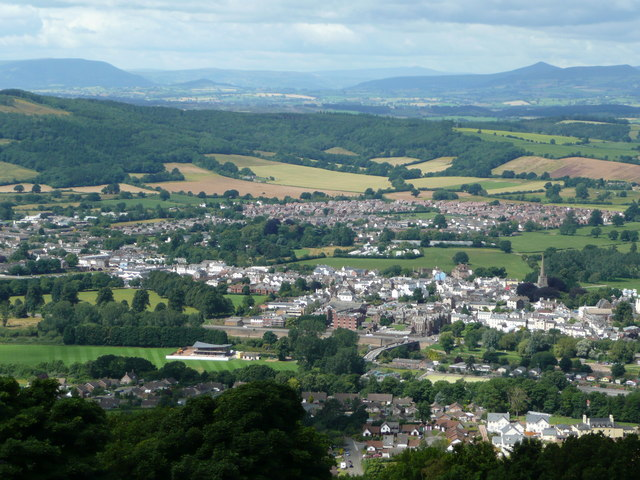 Monmouth, panorama